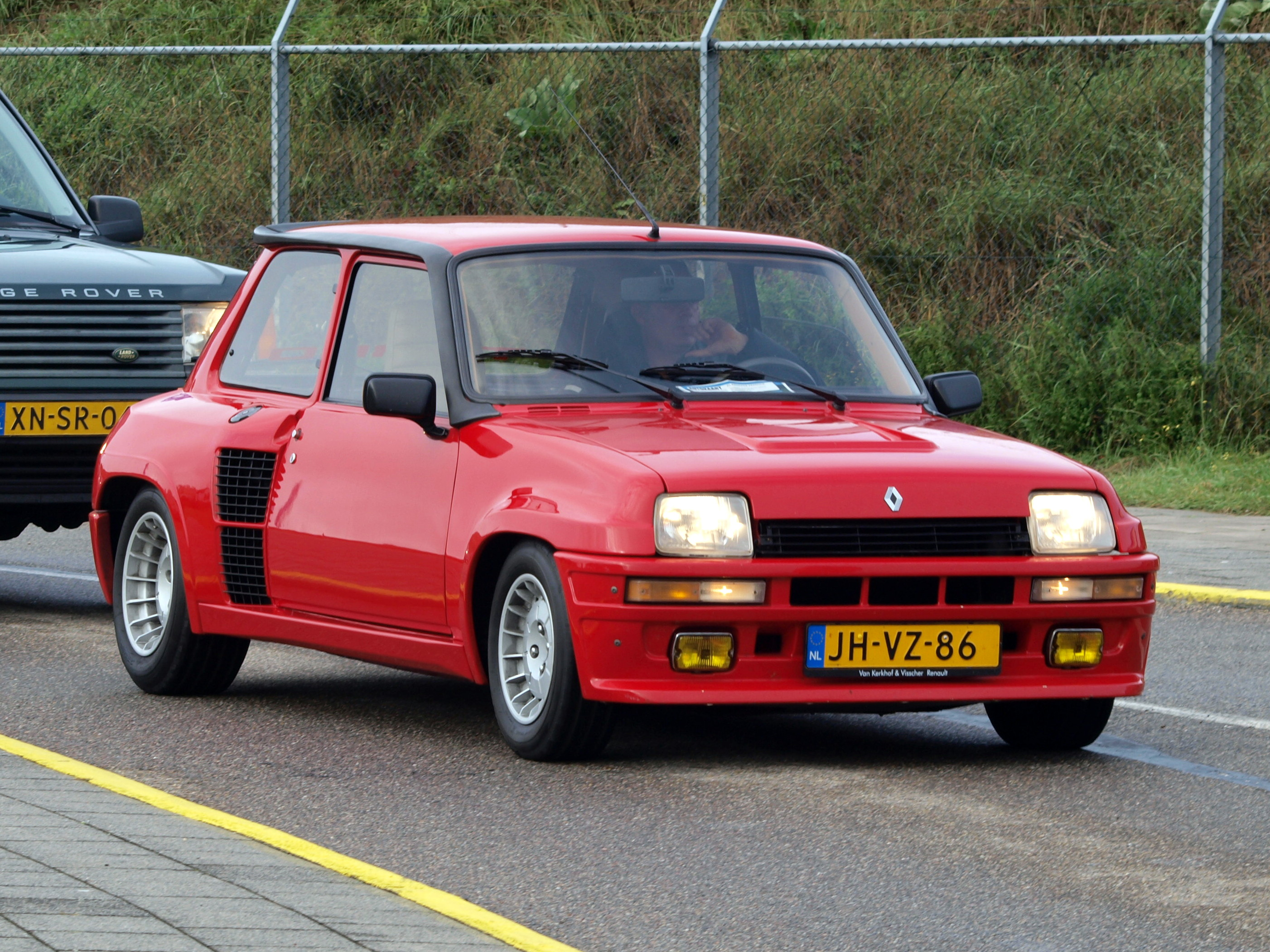 Photographed at the Nationaal Oldtimer Festival Zandvoort 2010, The Netherlands.